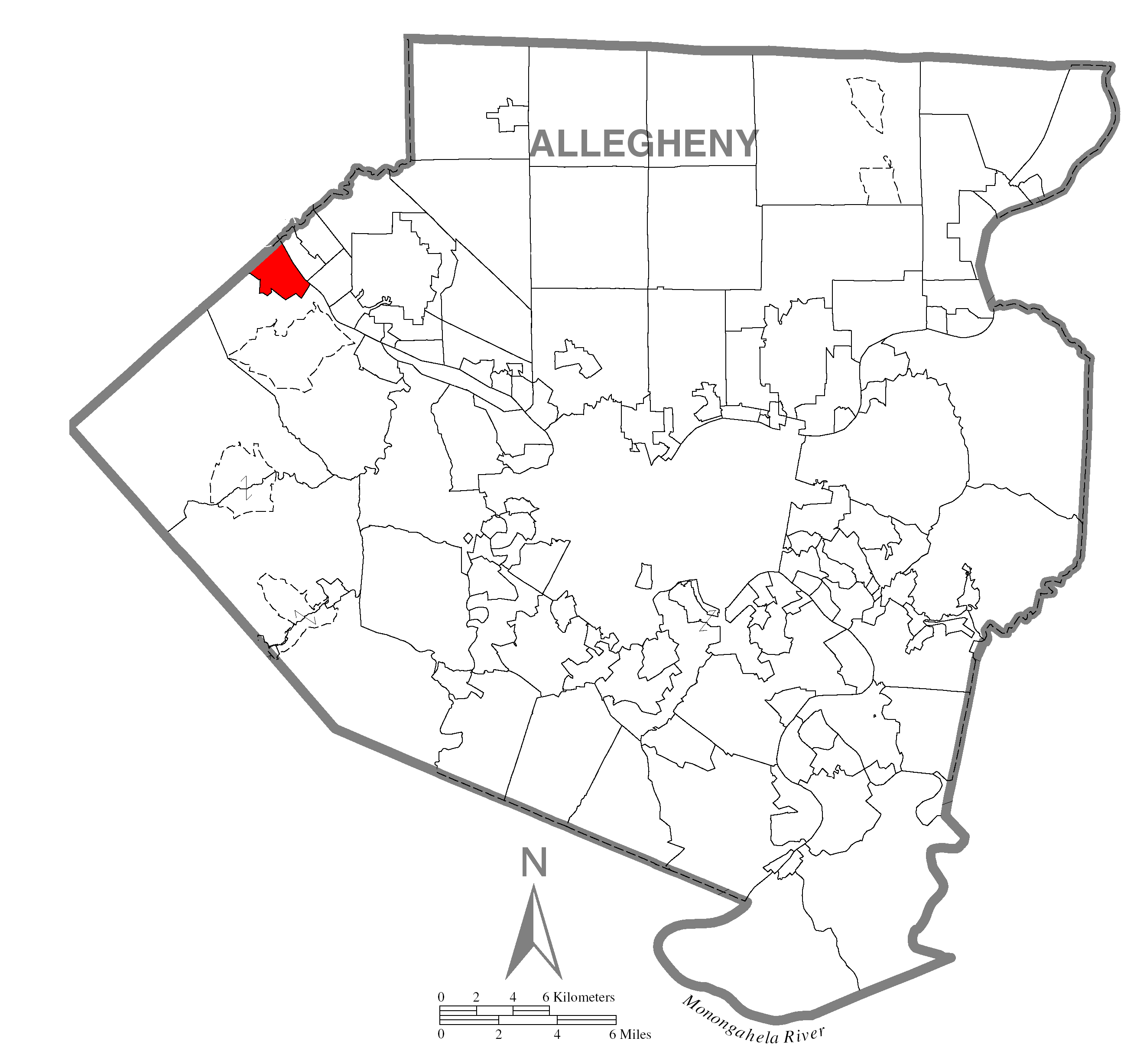 A map of Allegheny County showing Crescent Township, Pennsylvania (alternate) highlighted on the map.